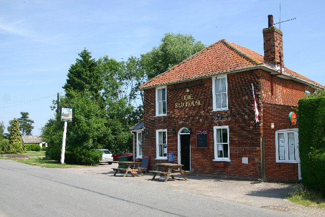 The Red House, Stanningfield. Situated at Hoggards Green, this public house doubles as a post office (extension to the right).